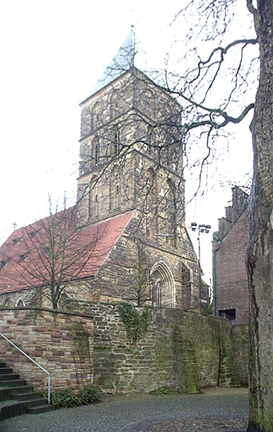 remains of the city wall of Rheine